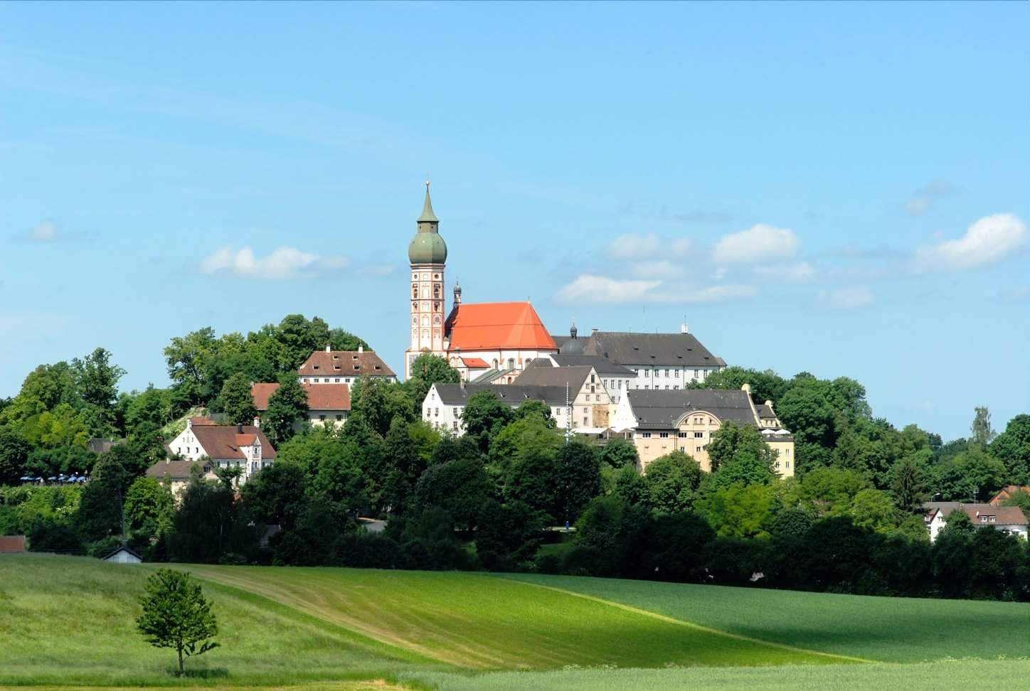 Andechs, view from East